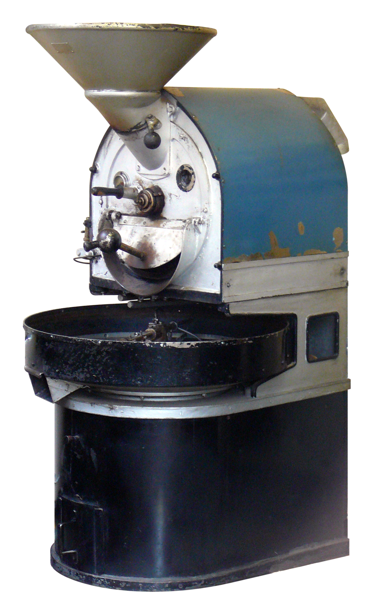 Machine à torréfier (english:coffee roaster)